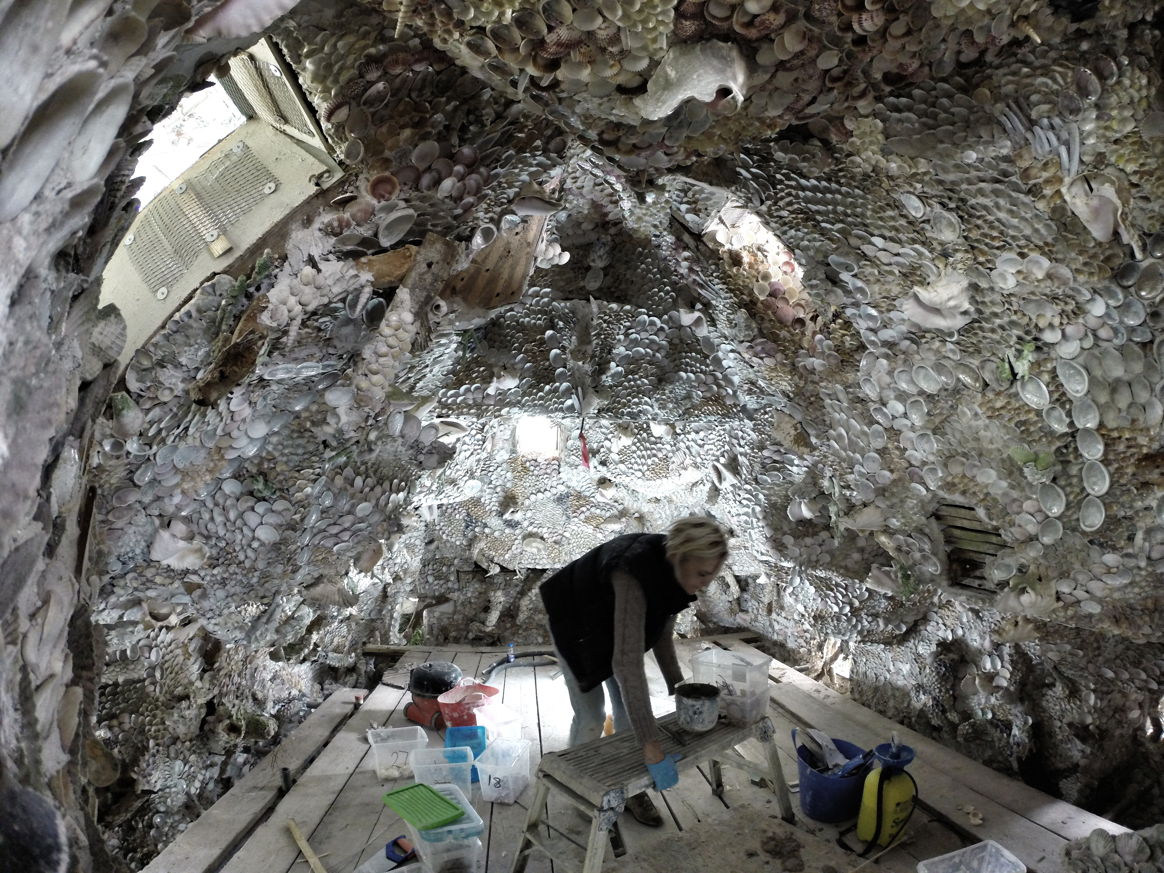 Works taking place to conserve the shell grotto by SSHConservation.